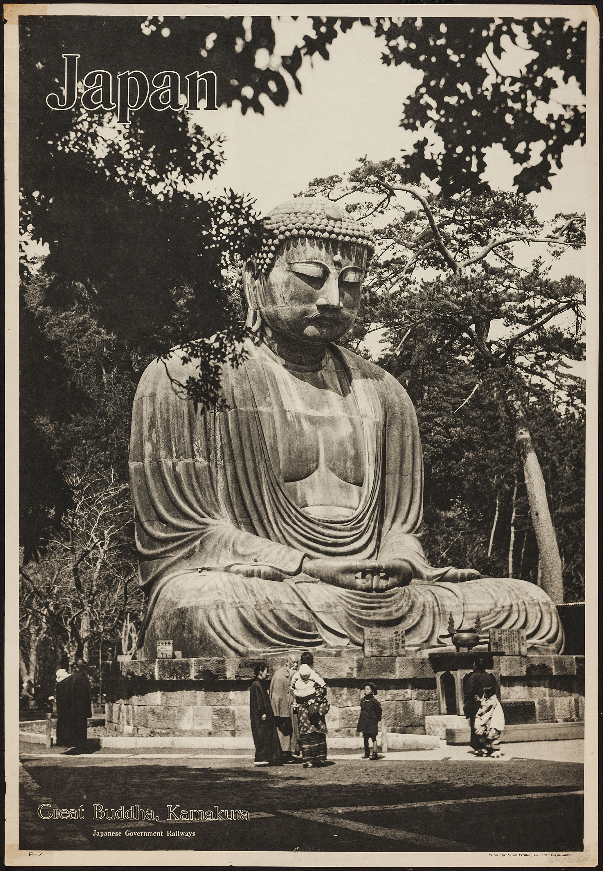 Japan Travel Poster (Japanese Government Railways). Poster (21" X 30.25").